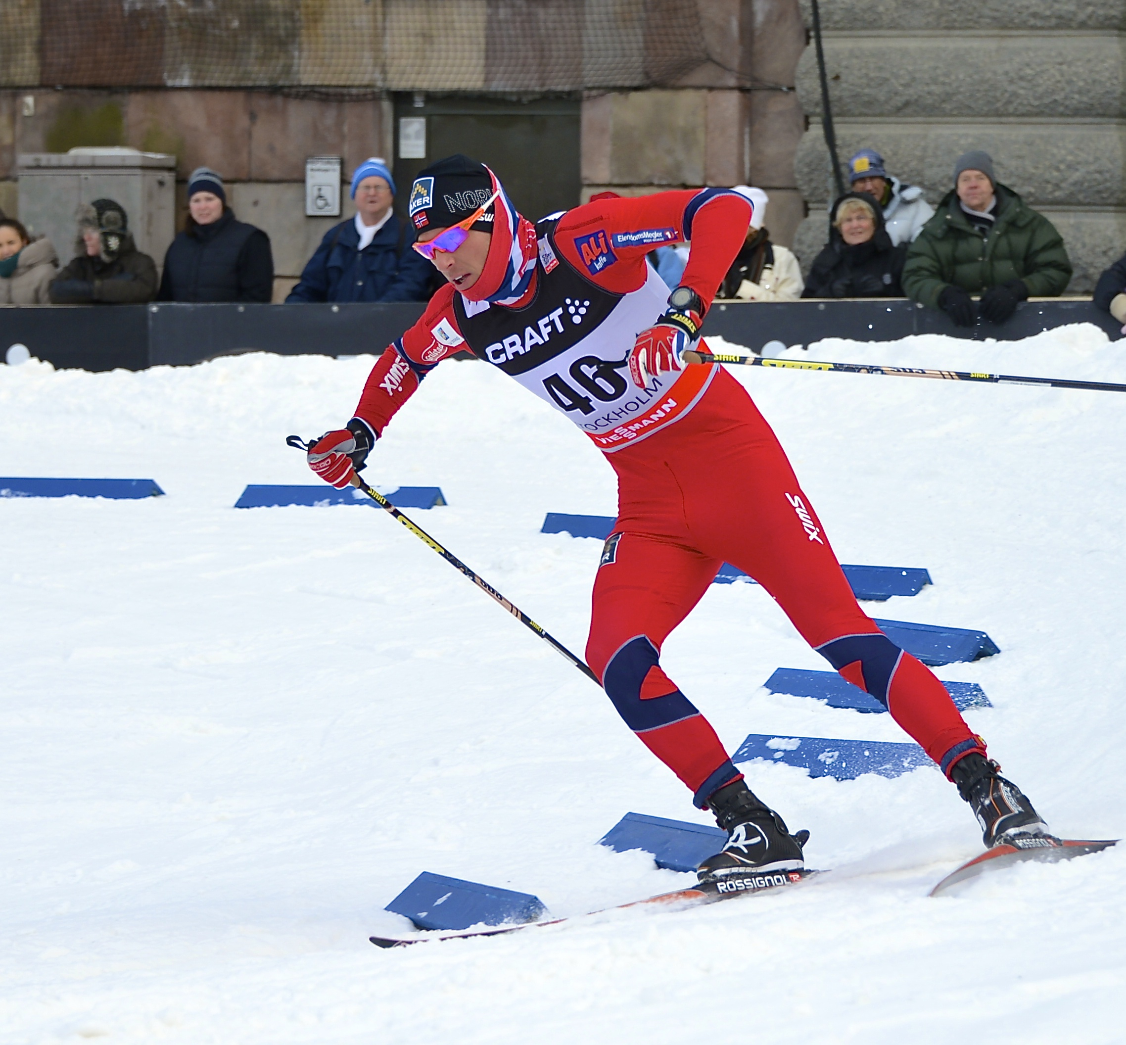 Chris Jespersen at Royal Palace Sprint in Stockholm March 20, 2013